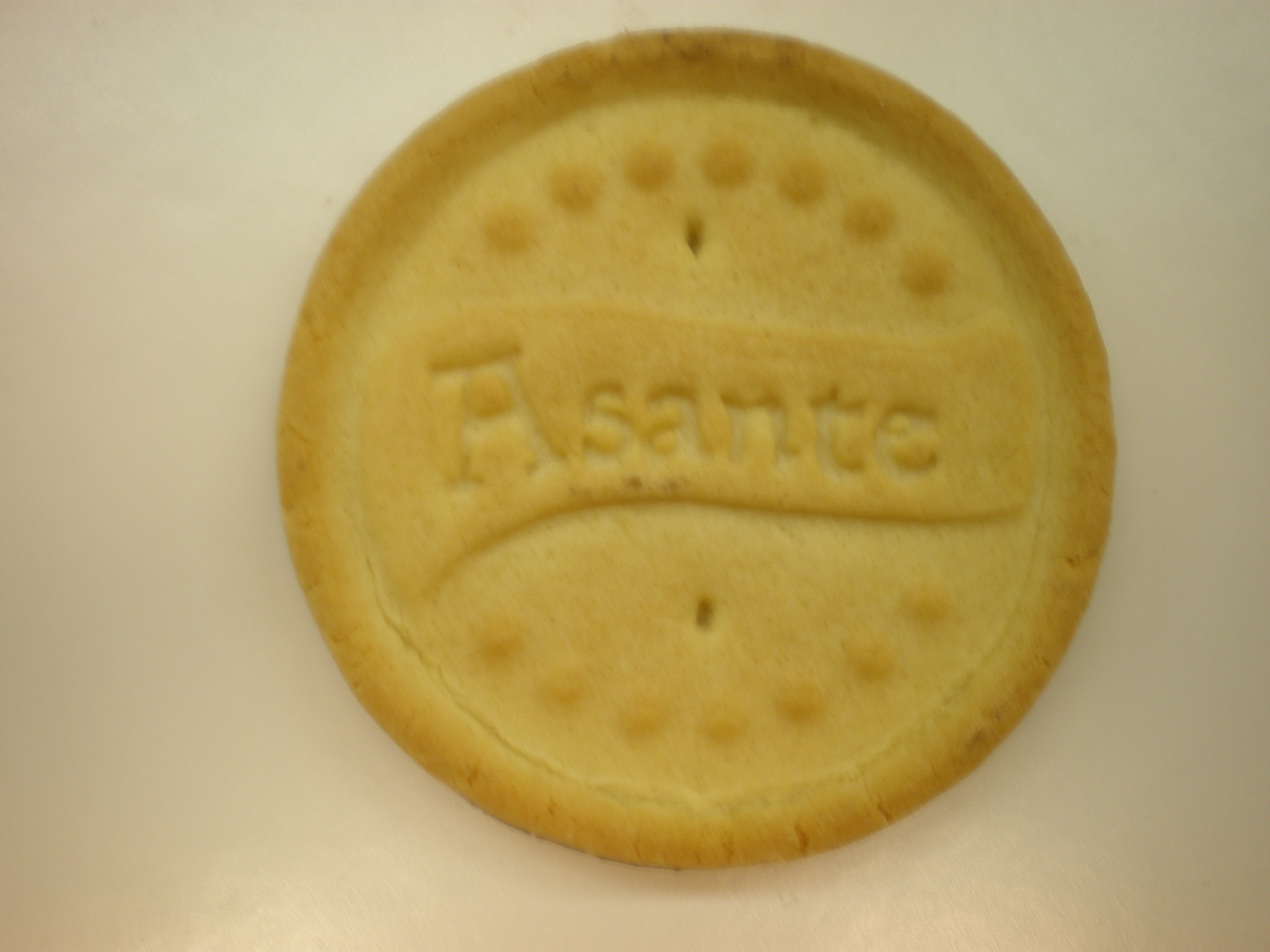 A Girl Scouts of the USA All Abouts cookie with "Asante", the word for "thank you" in Swahili